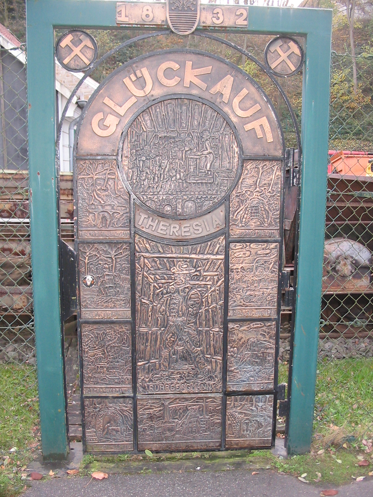 door Zeche Theresia